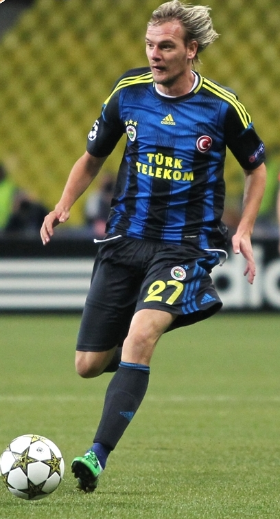 Miloš Krasić